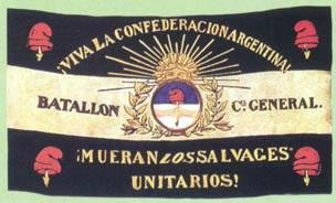 Military flag of the Argentine Confederation, with the national coat of arms on the centre.